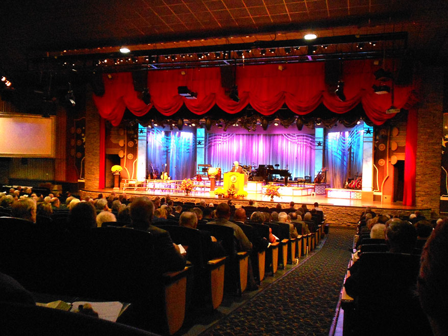 United Church of God Feast of Tabernacles celebration in Branson, Missouri, 2015